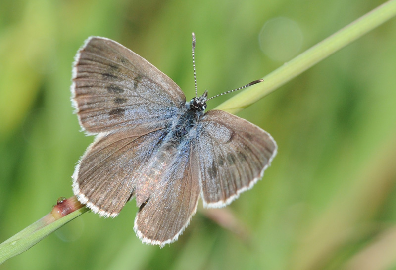 Wing upperside view of a Mountain Alcon Blue (Phengaris rebeli).